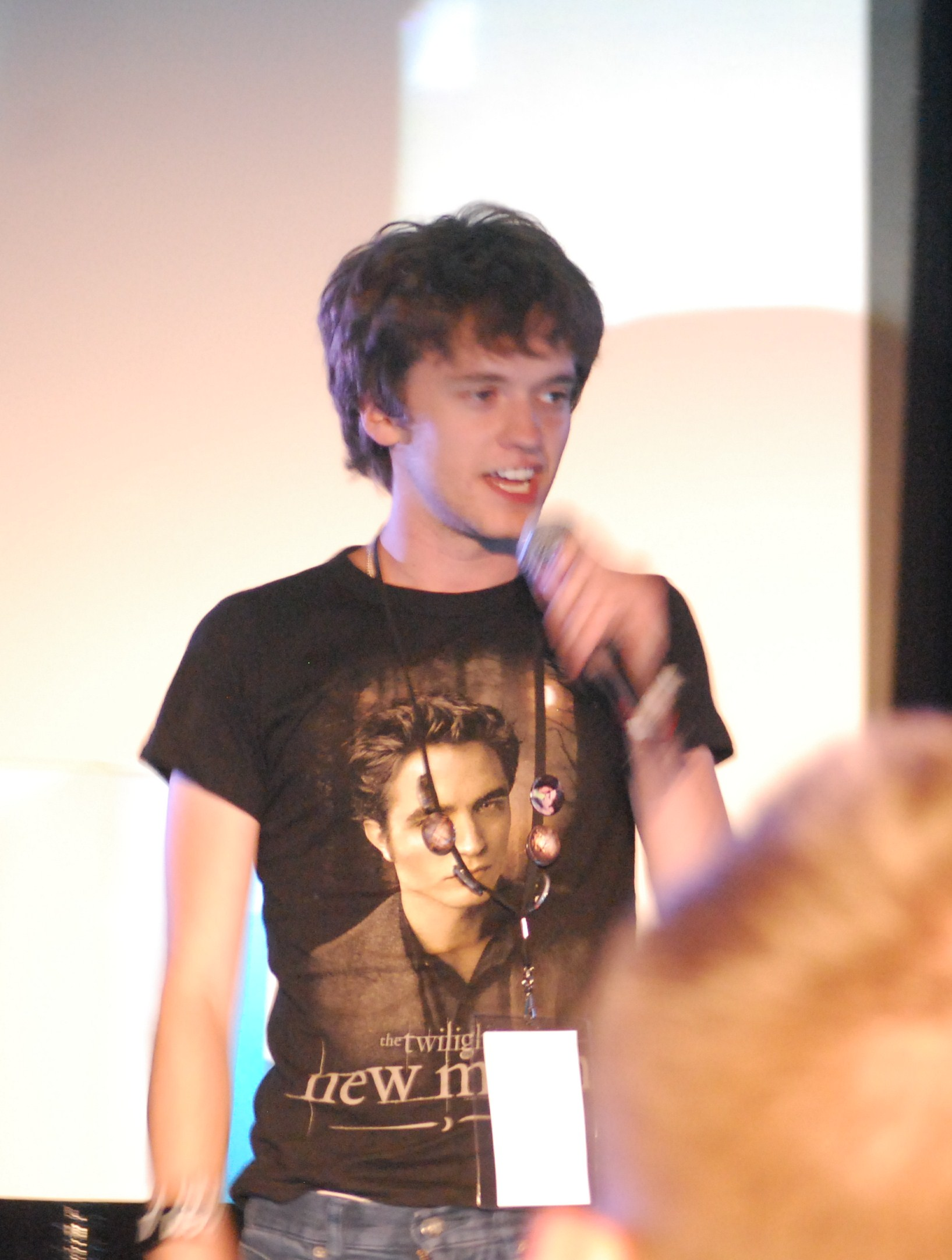 Alex Day speaking at VidCon in 2010, for use on the Wikipedia page 'Alex Day (musician)'